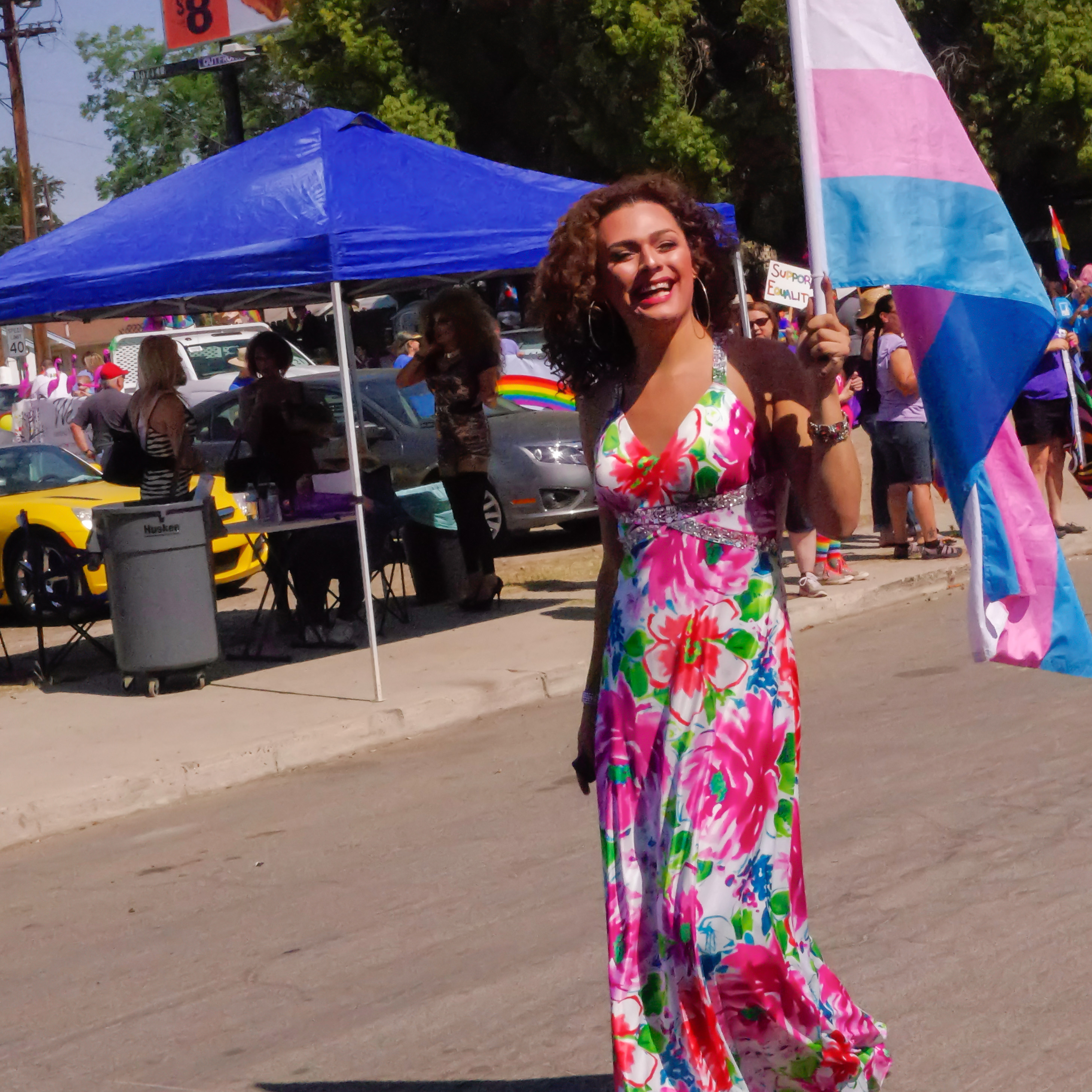 Transgender Pride Fresno Rainbow Pride Parade and Festival, June 2015